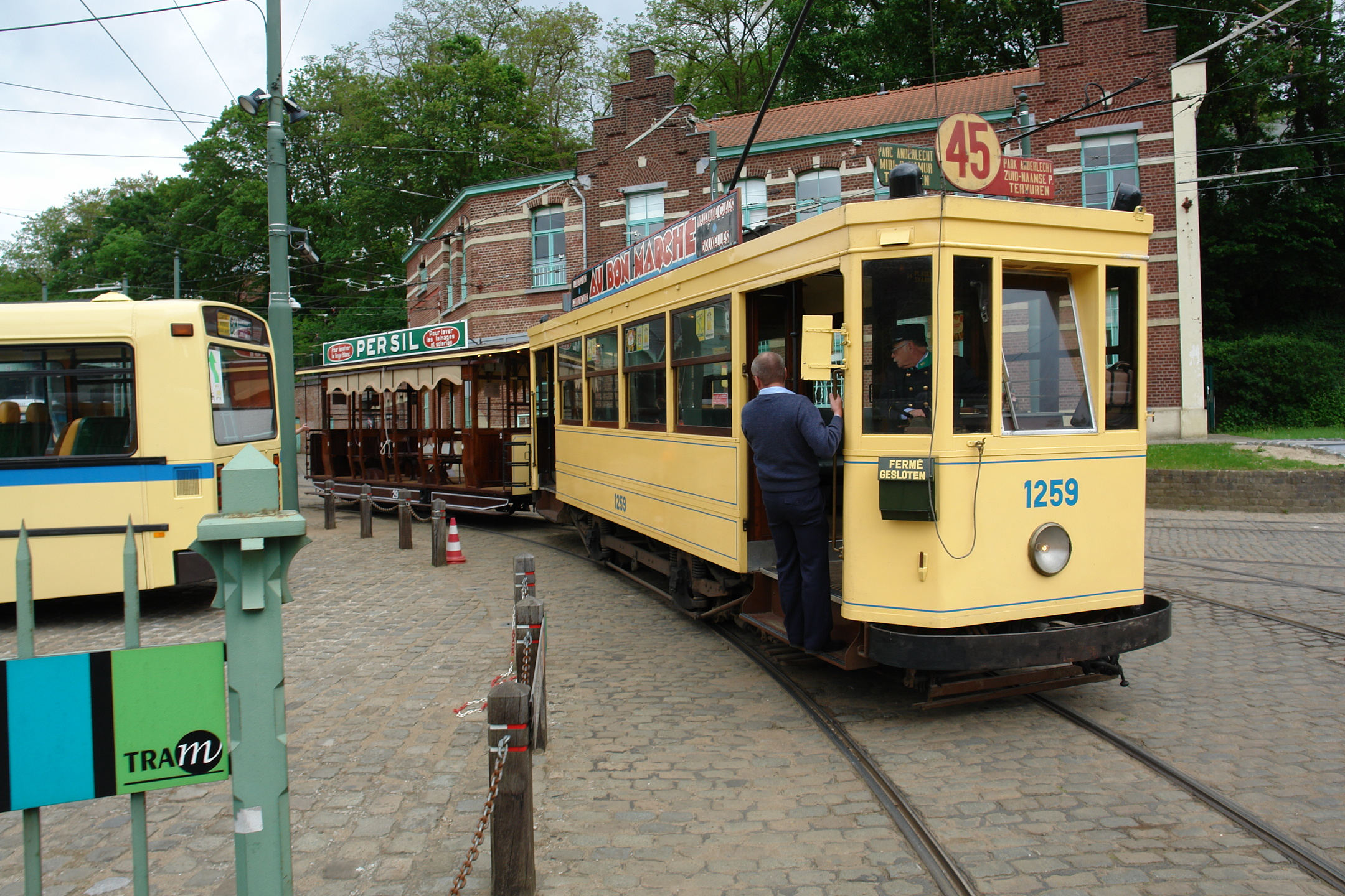 Brussels Tramway Museum